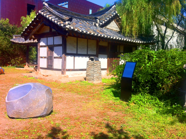 A picture of the hanok at the center of Paju Book City taken on 10/12/13